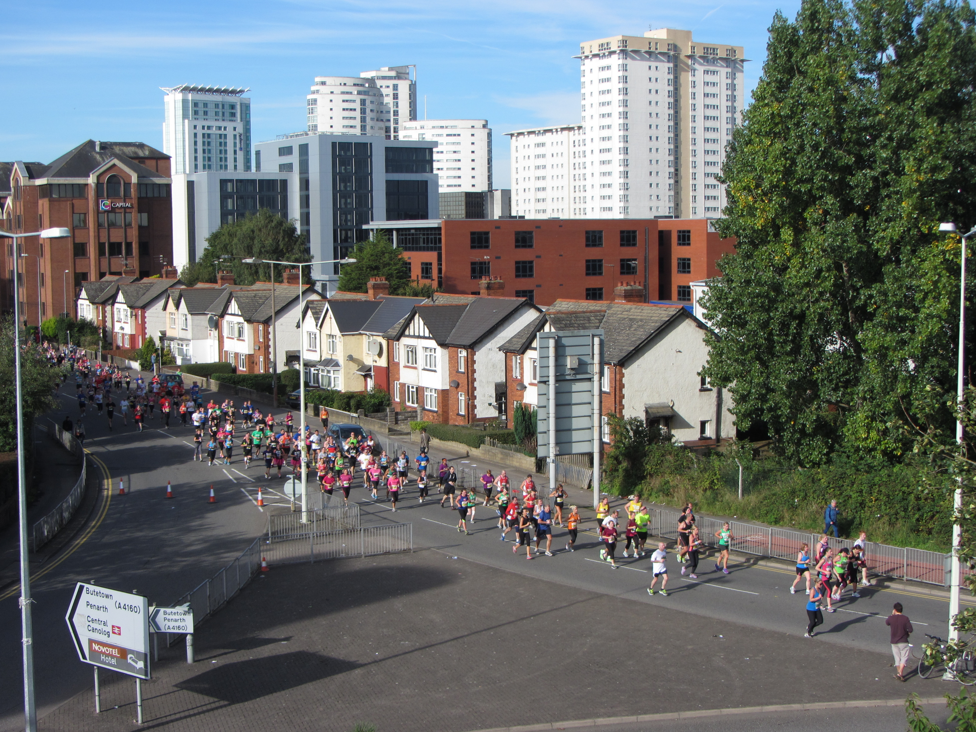 Cardiff Half Marathon 2013. The 2013 Cardiff Half Marathon attracted some 19,000 runners and 40,000 spectators. Here the runners pass along Tyndall Street.